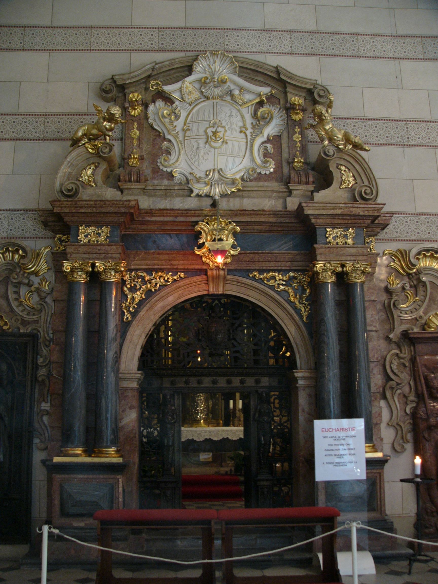 Portal of kaple sv. Stanislava chapel in St. Wenceslaus cathedral in Olomouc (Czech Republic). Coat of arms belongs to bishop Stanislav II. Pavlovský.